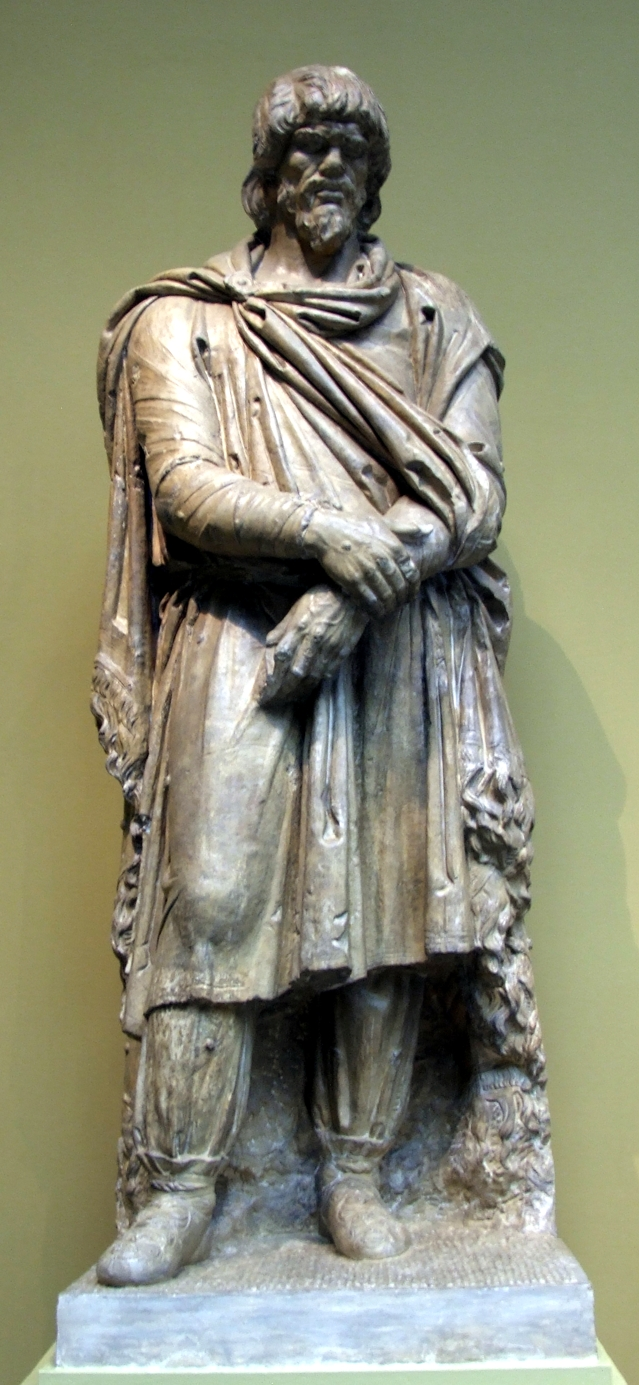 Well built tall muscular captive Dacian. Cast in Pushkin museum after original in Lateran Museum. Early II c.